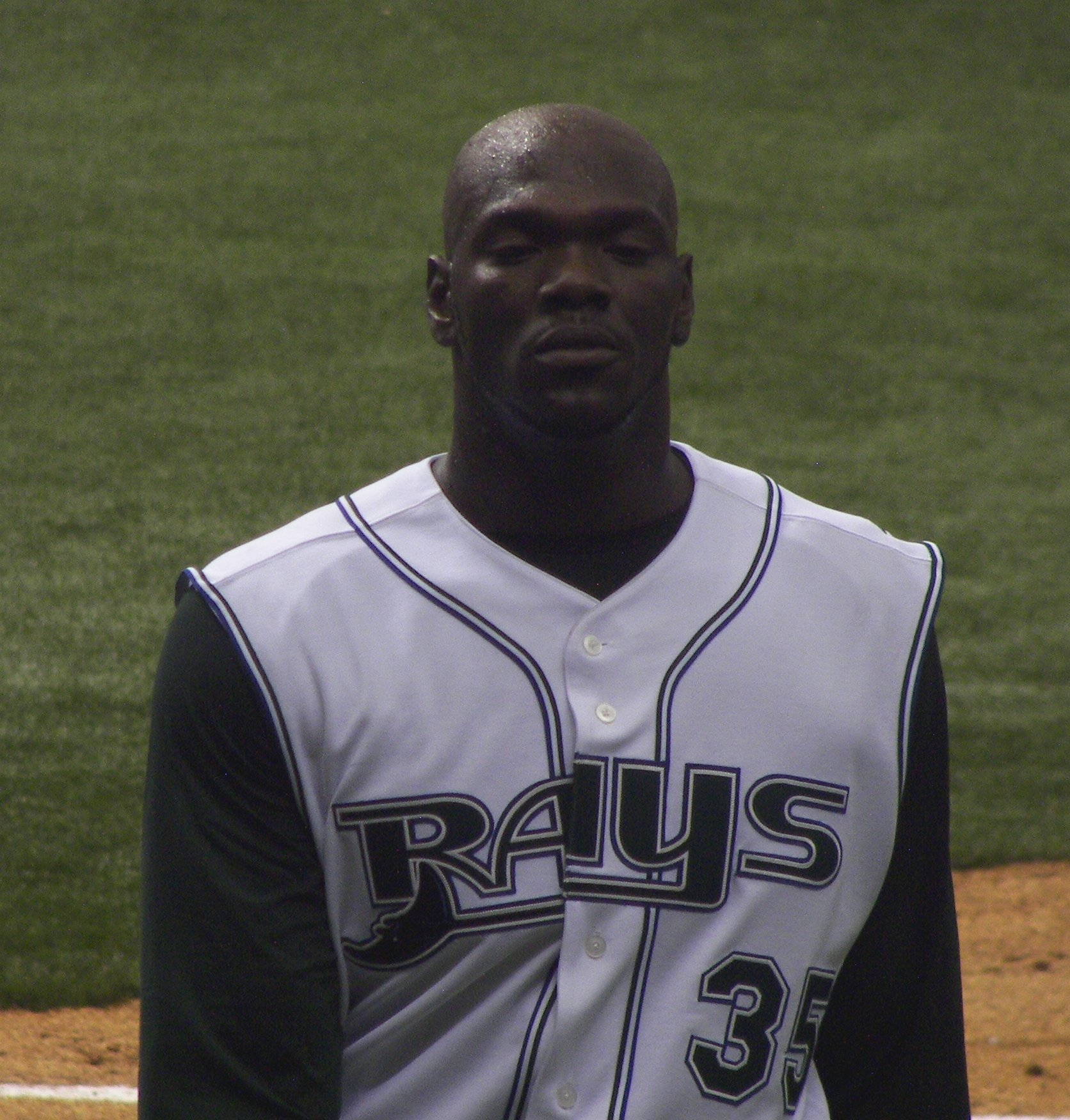 Tampa Bay Devil Rays outfielder Elijah Dukes during a Devil Rays/Mets spring training game at Tropicana Field in St. Petersburg, Florida.